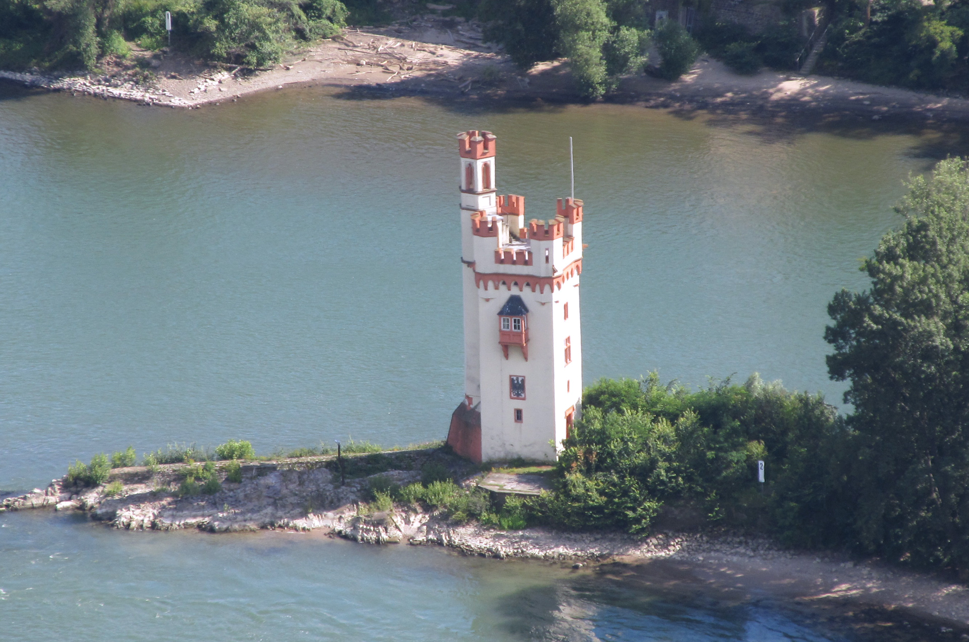 Bignen Bingen Mouse tower